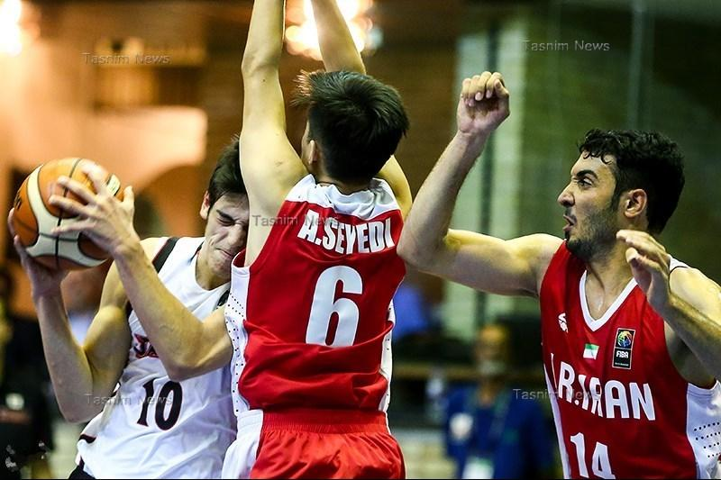 Iran-Japan basketball game